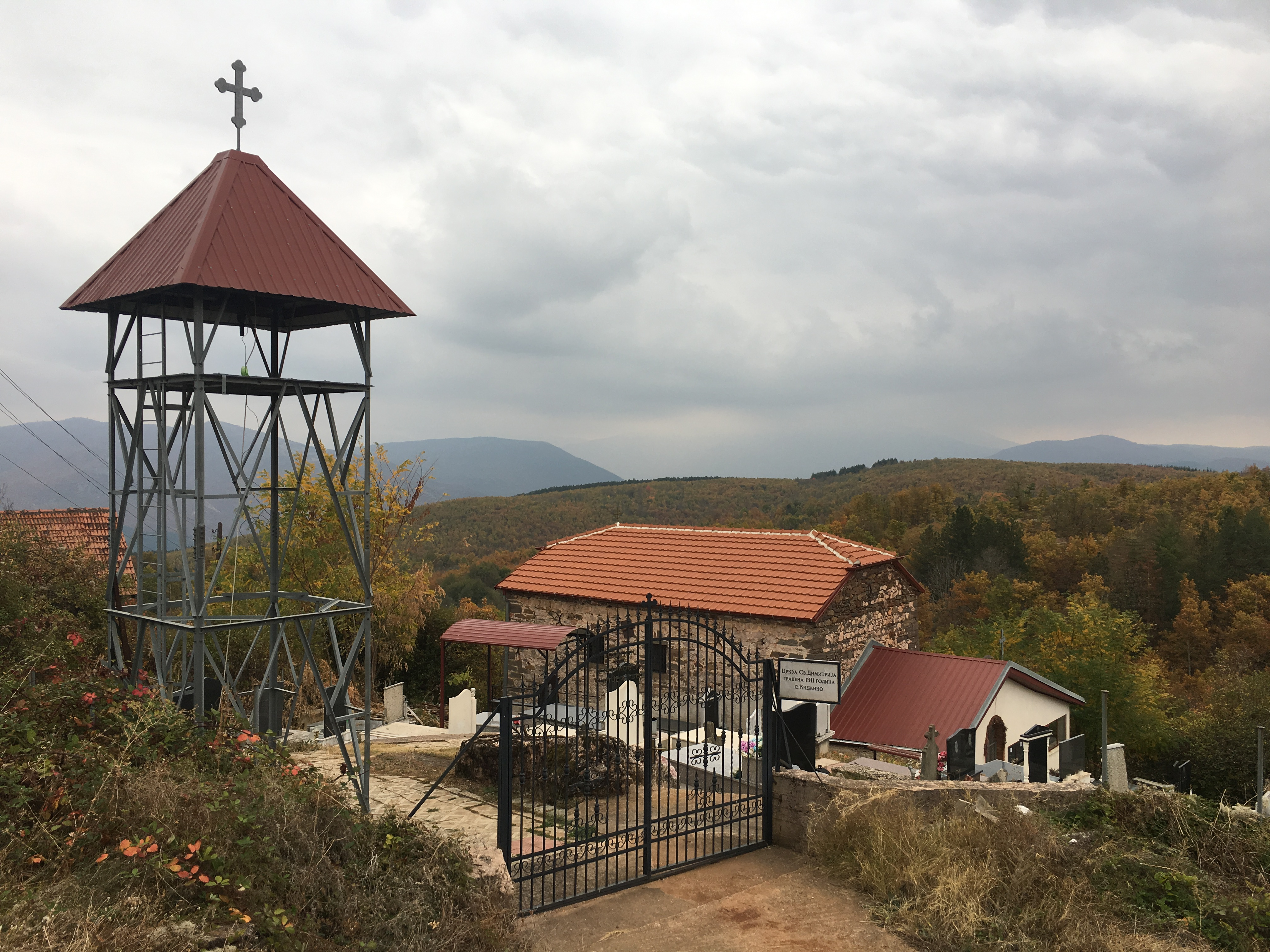 Wikiexpedition to Kopačka